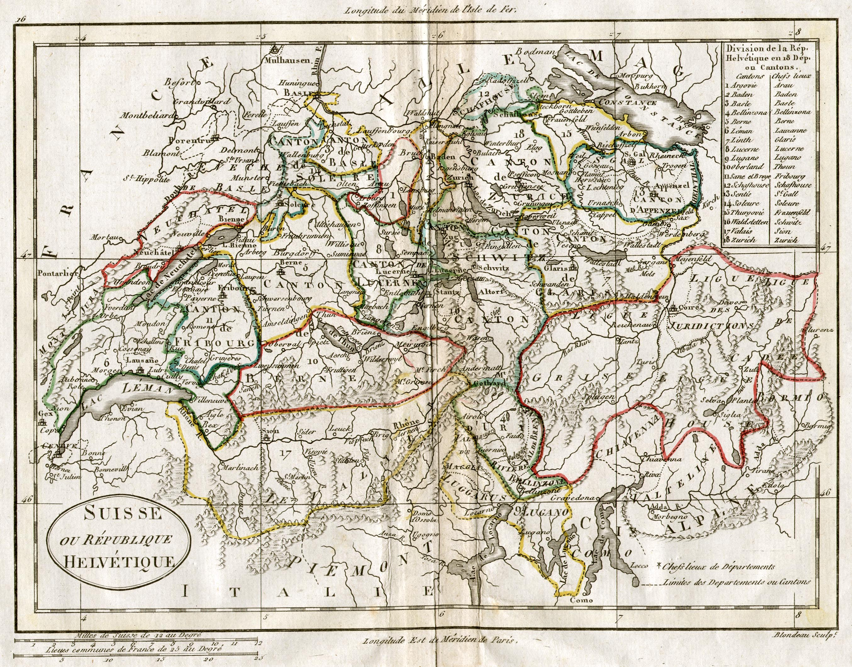 Old map of the Helvetic Republic (Switzerland) with borders of the cantons as in the year 1798